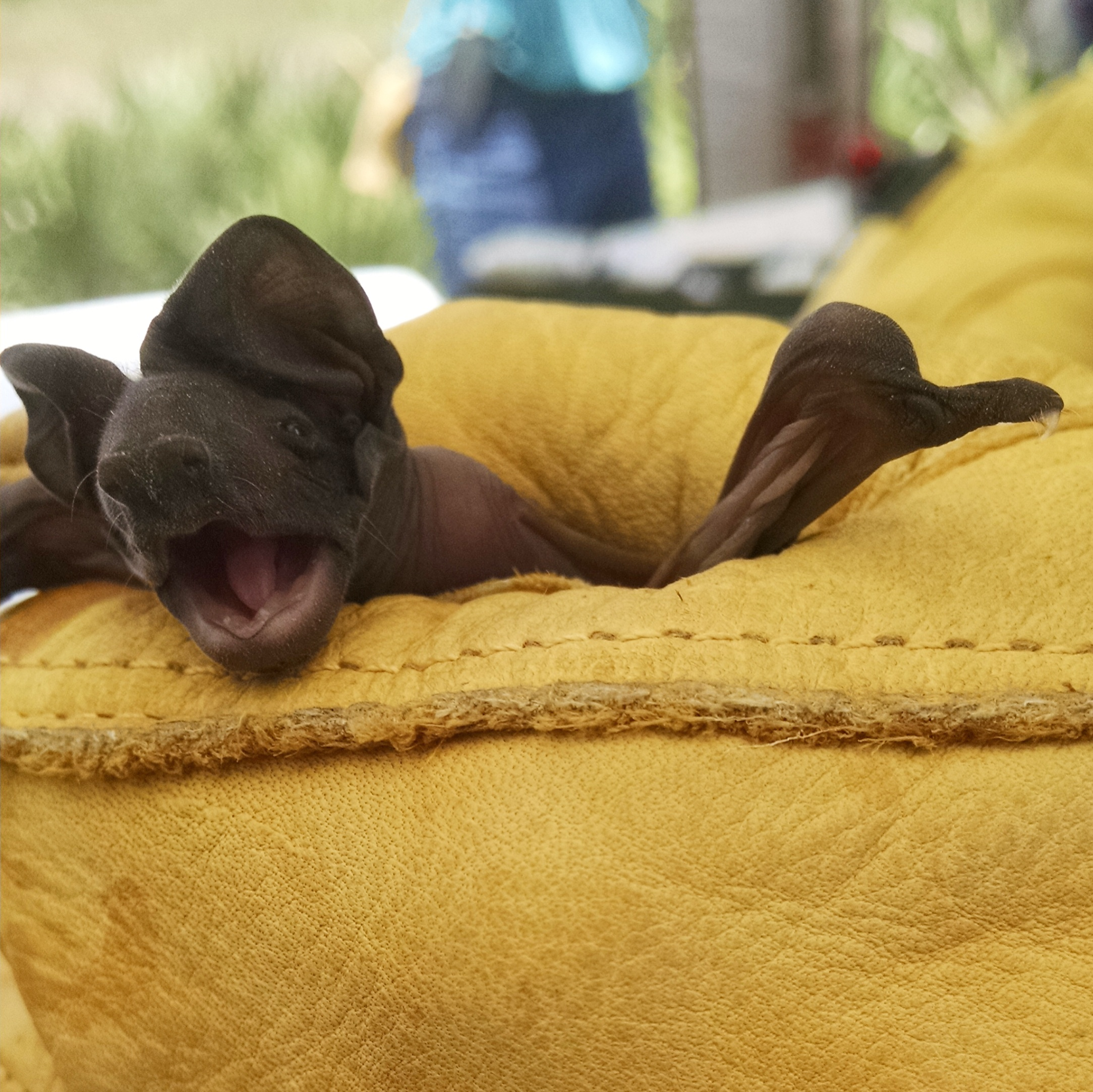 Eumops floridanus pup, yet to develop teeth or hair